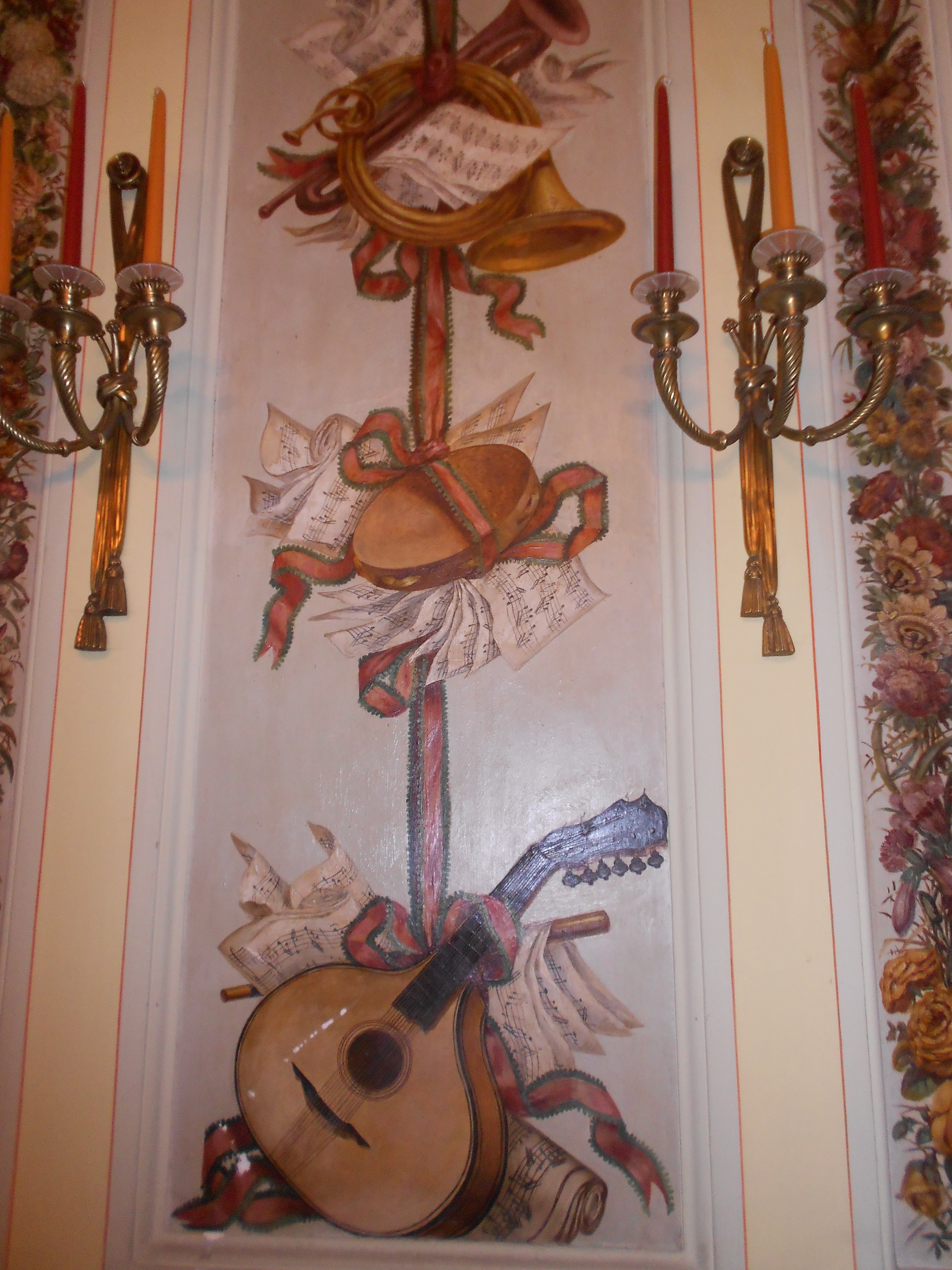 Detail of the wall decorations of the room (in Neoclassical style), depicting a portuguese guitar, a tambourine, a french horn and several sheets of music. These were painted by the portuguese artist Pedro Alexandrino de Carvalho somewhere in the late 18th/early 19th century. The palace houses the French Embassy in Lisbon, Portugal.